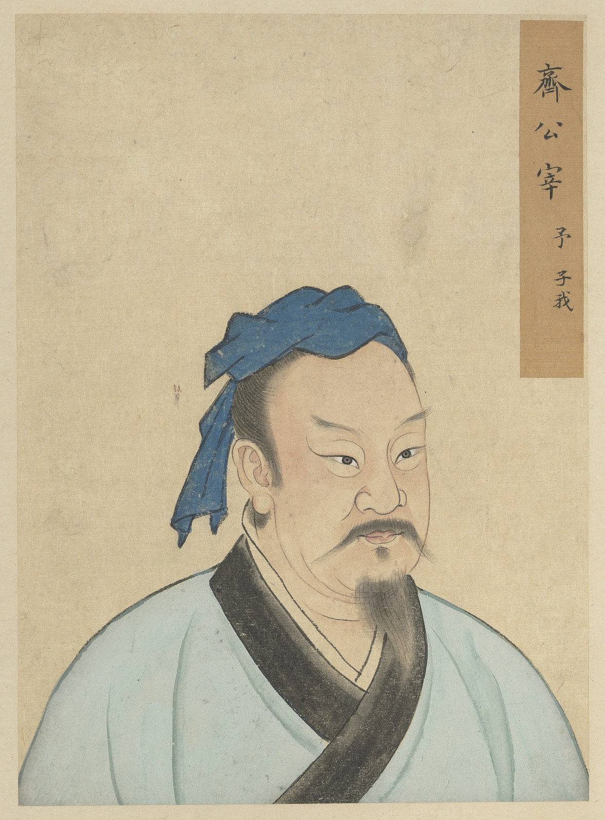 This depicts Zai Yu (宰予), styled Ziwo (子我), also known as Zai Wo (宰我).